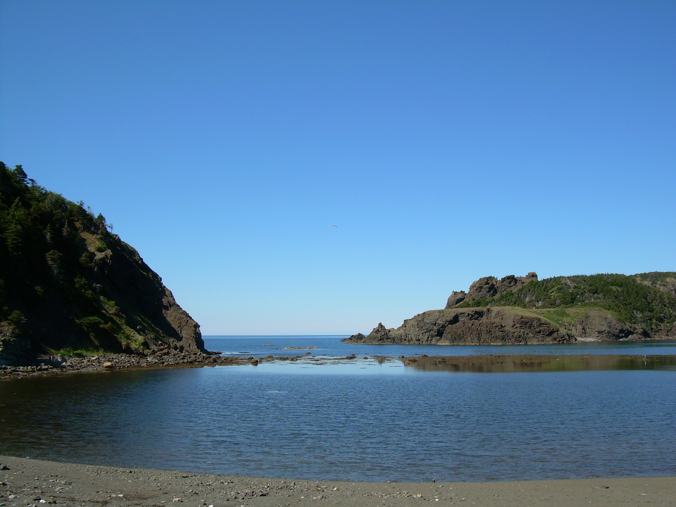 A view of Bottle Cove, Newfoundland (Canada), looking out into the Saint Lawrence Strait.